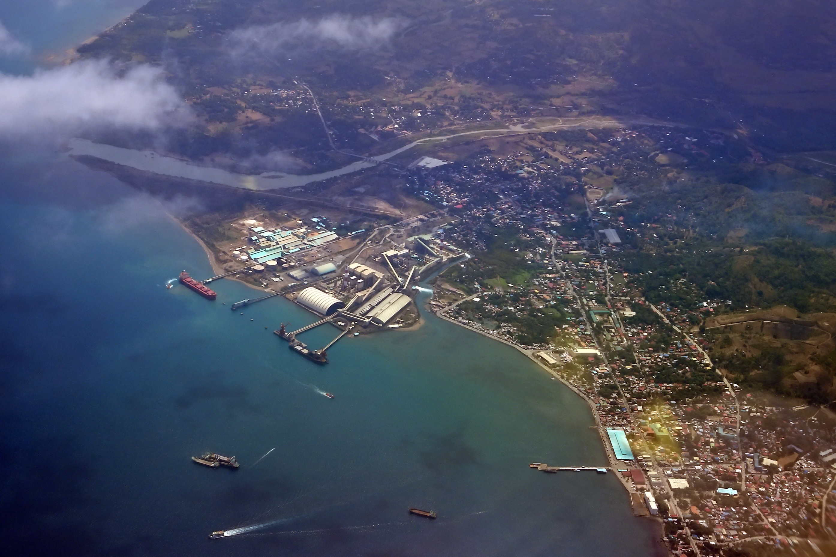 Toledo City, Cebu, Philippines